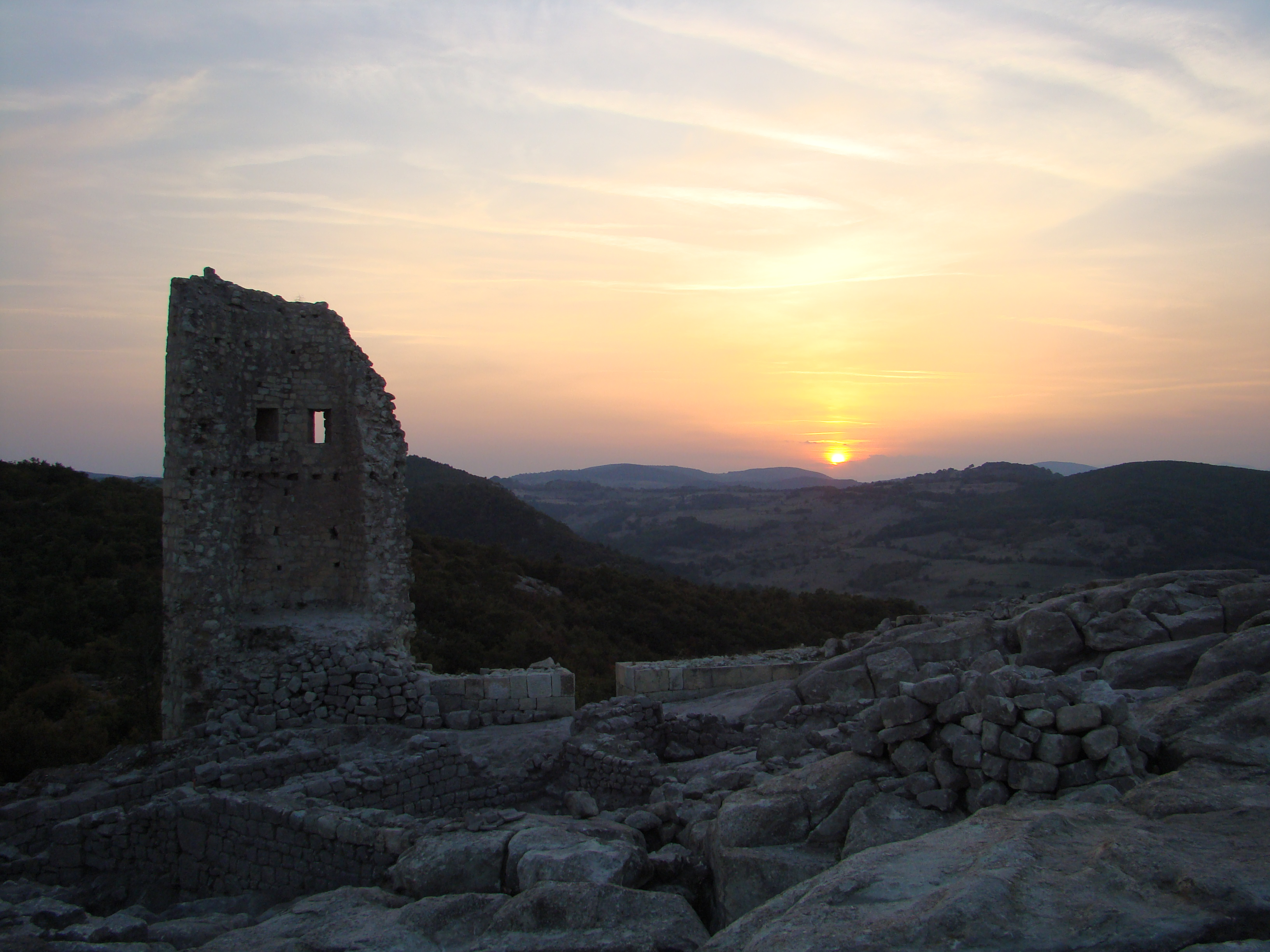 Perpericon medieval remnant walls